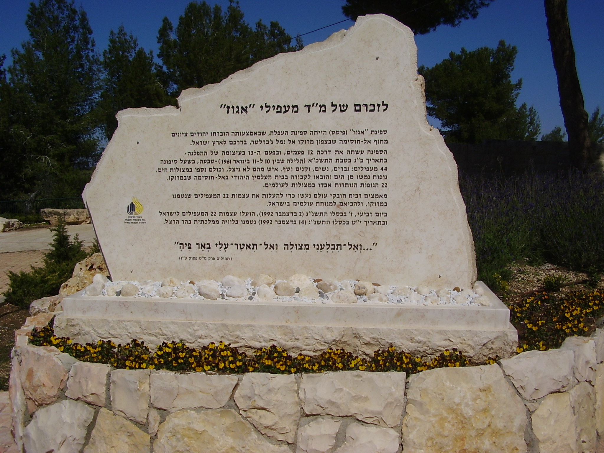 monument on mount herzl, to the victims on board of the immigrants ship \"egoz\"